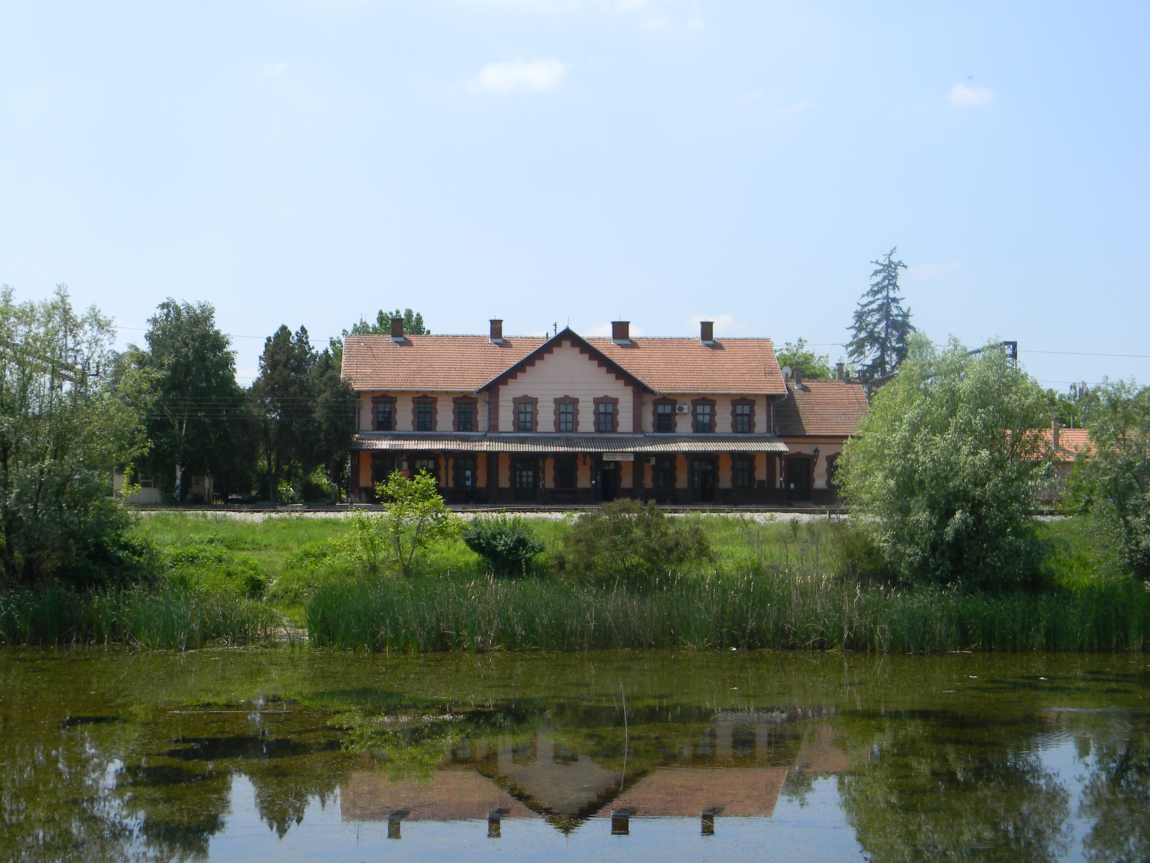 Railway station in Pančevo near Peskana